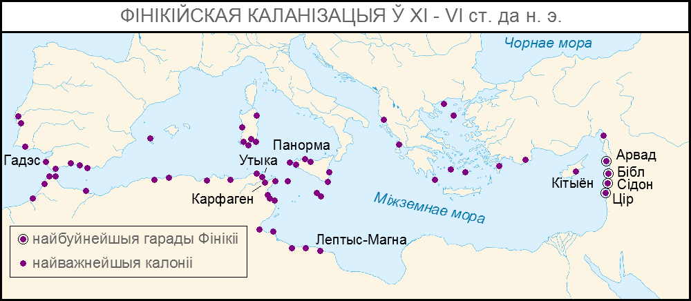 Map of Phoenician colonies, 11th-6th centuries BCE